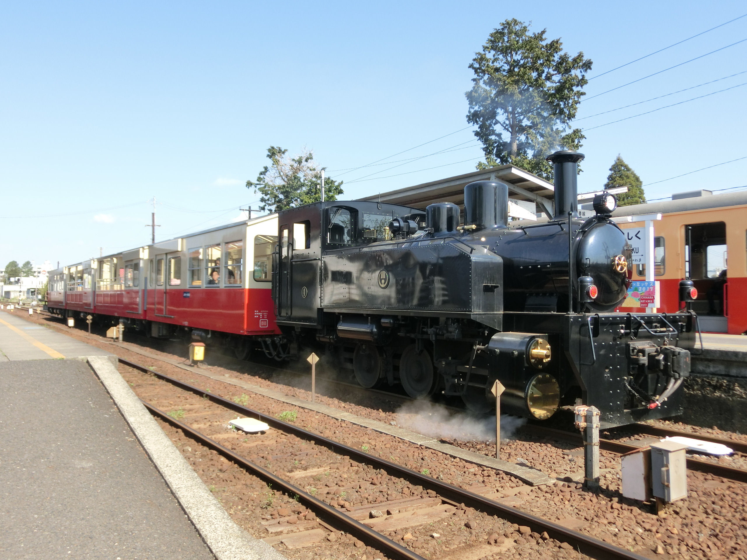 The Kominato Railway Satoyama Torokko train at Kazusa-Ushiku Station in Chiba Prefecture, Japan